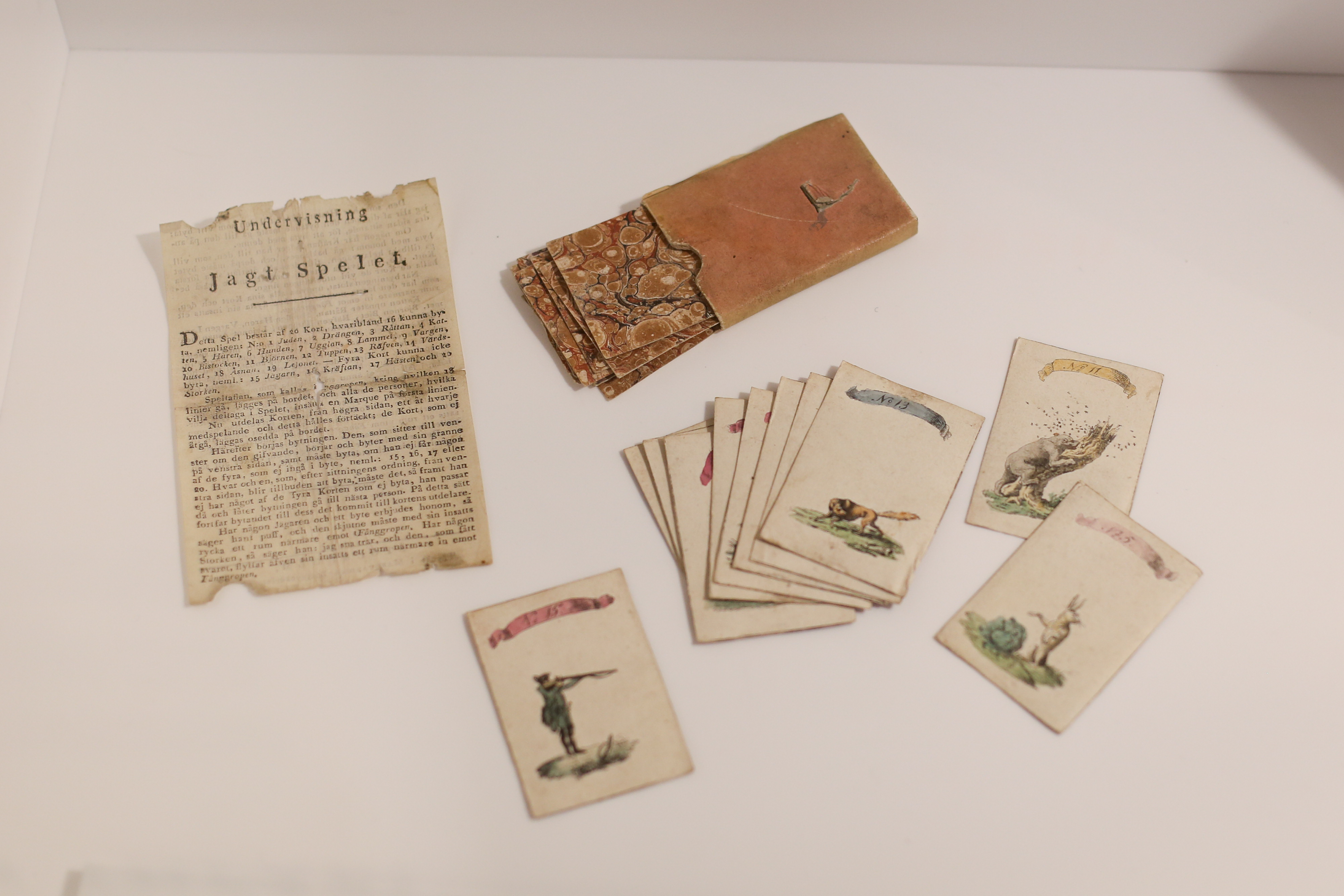 An old hunting-themed card game Jagt from Stockholm, printed in early 1800s. The game is displayed at Rupriikki Media Museum.